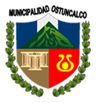 SJO s